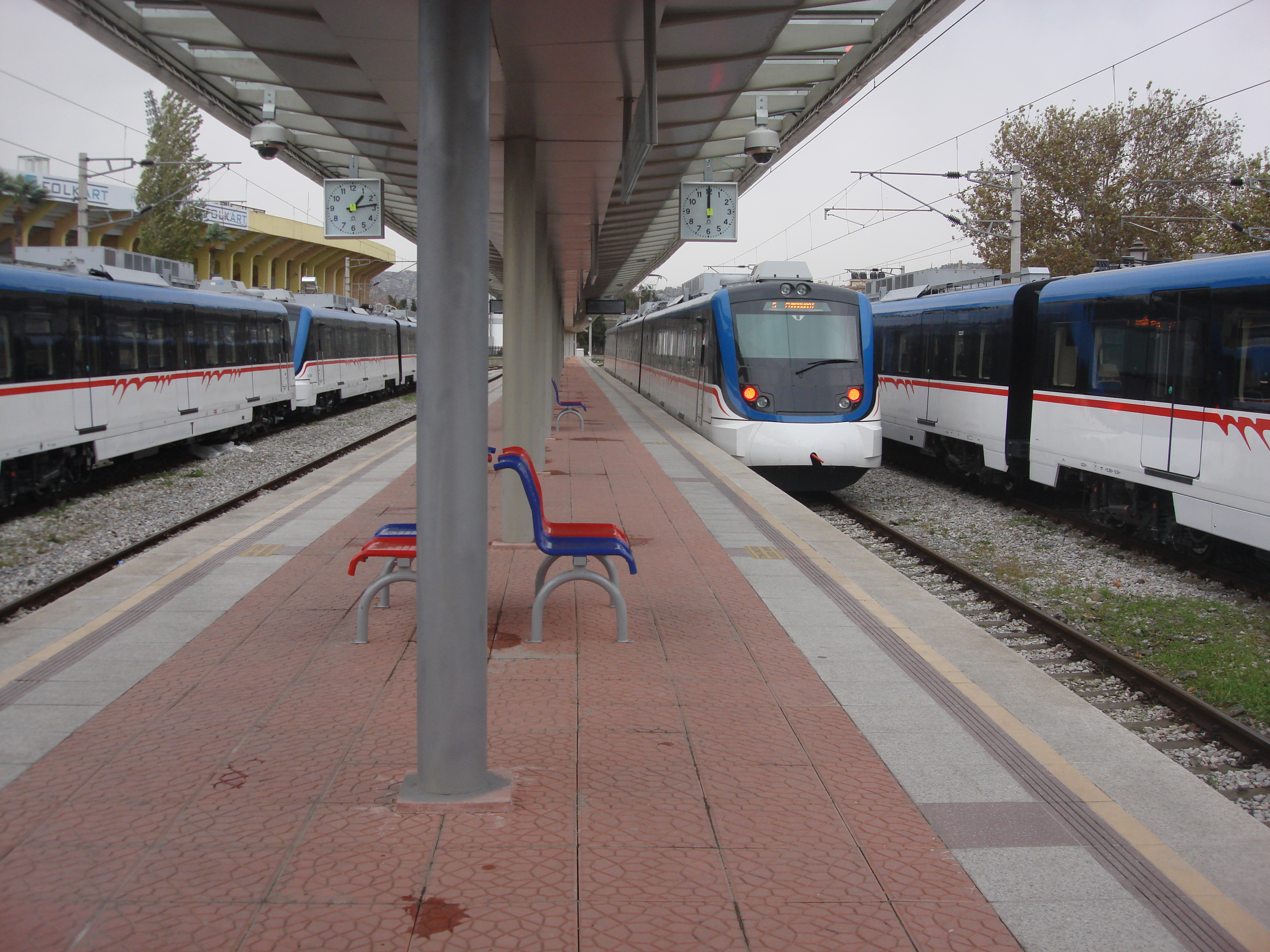 A southbound İZBAN train leaving Alsancak Station.